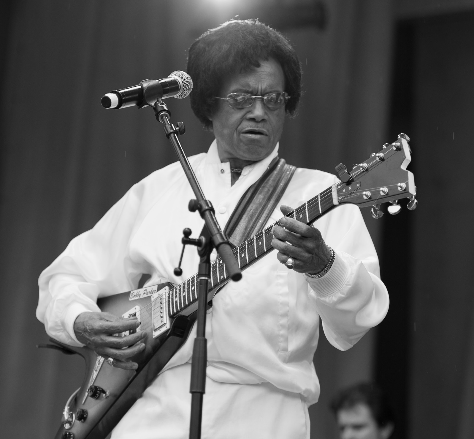 Bobby Parker performing at the Chicago Blues Festival in 2010